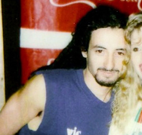 Mike "Puffy" Bordin of Faith No More